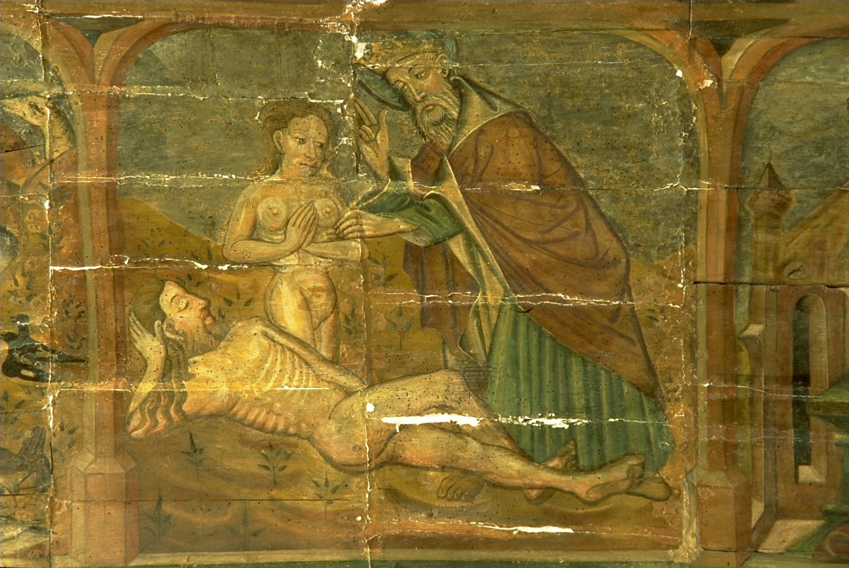 Painting on the ceiling in the chapel of Notre-Dame-du-Tertre in Châtelaudren, Brittany, France